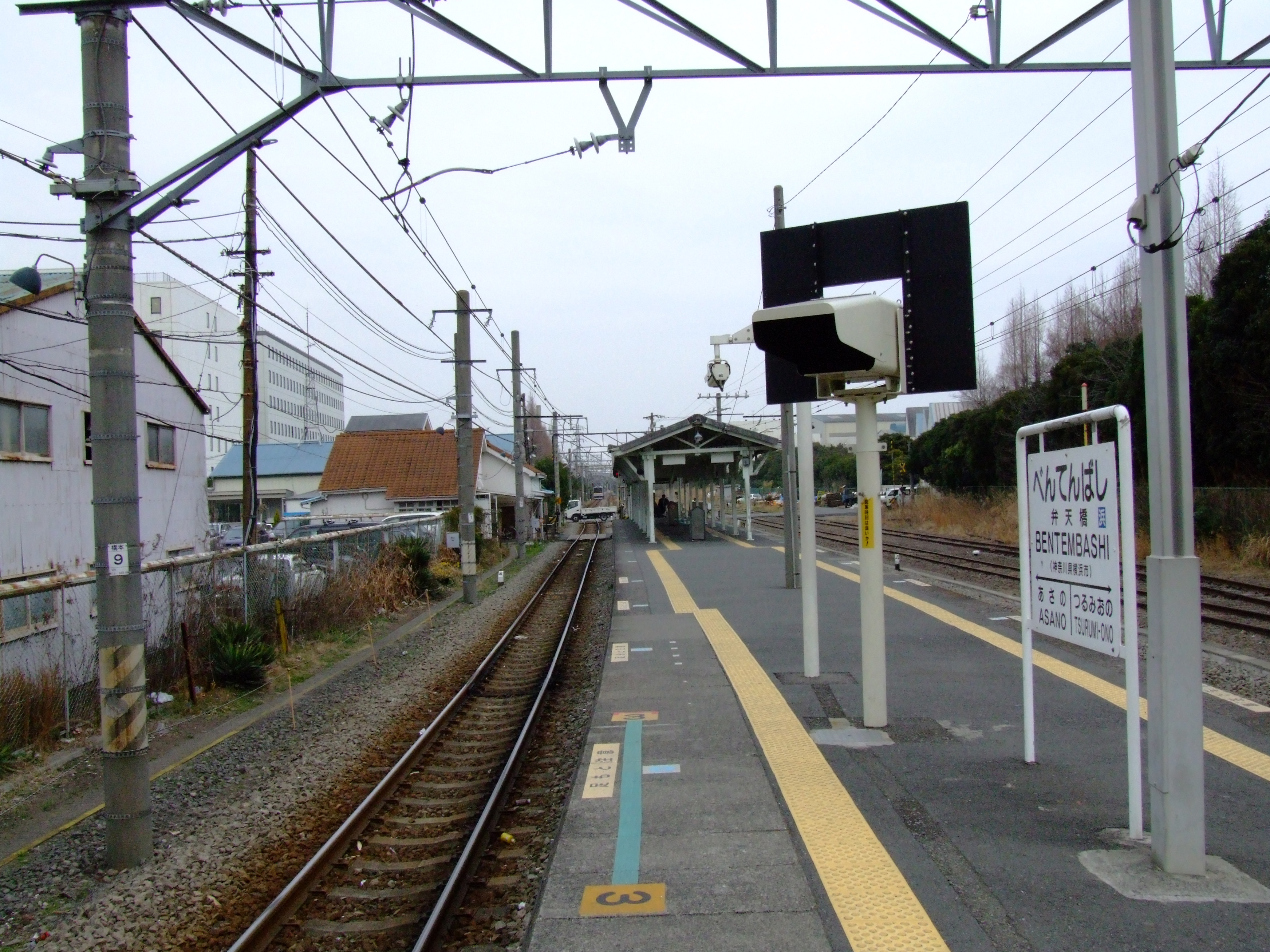 The platform at Bentenbashi Station